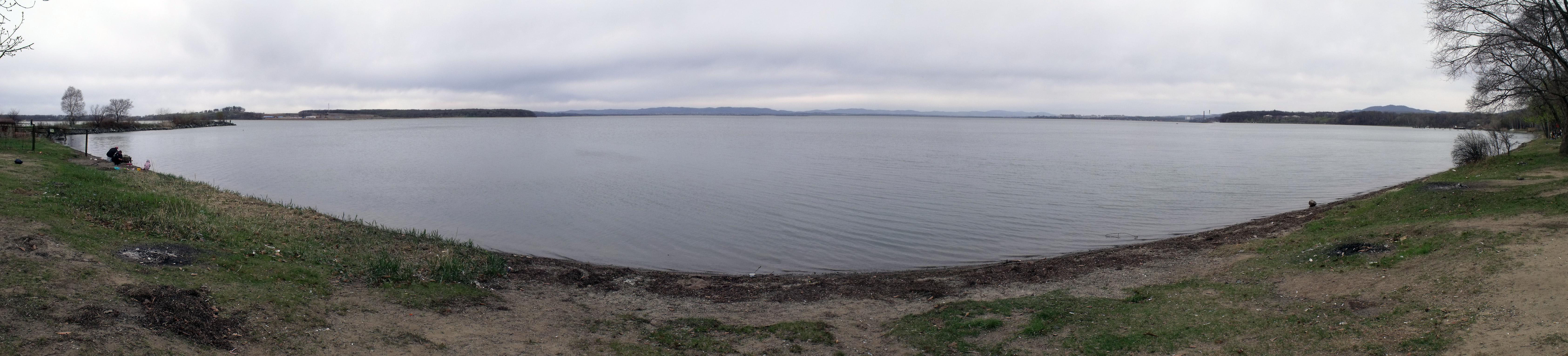 Panorama of Uglovoy Bay.